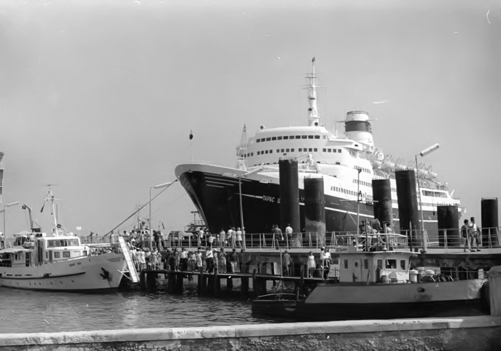 Khadzharat Kyakhba, Taras Shevchenko, Delfin at Black Sea quay in Sukhumi, Abkhaz ASSR, Georgian SSR in July 1970